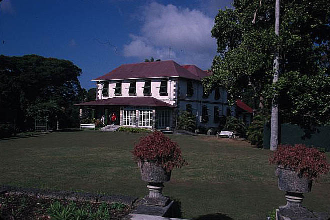 FRANCIA PLANTATION HOUSE; BUILT IN THE EARLY YEARS OF THE 19TH C. BY A FRENCH ÉMIGRÉ FROM BRAZIL. ONE OF THE LAST PLANTATION GREAT HOUSES BUILT ON BARBADOS BUT IS NOW STILL LIVED IN BY THE ORIGINAL OWNERS AND FEATURED IN MANY INTERNATIONAL MAGAZINES. NOTEWORTHY IS THE DINING ROOM WITH MAGNIFICENT EUROPEAN CHANDELIERS AND THE 19TH C MAHOGANY TABLE.